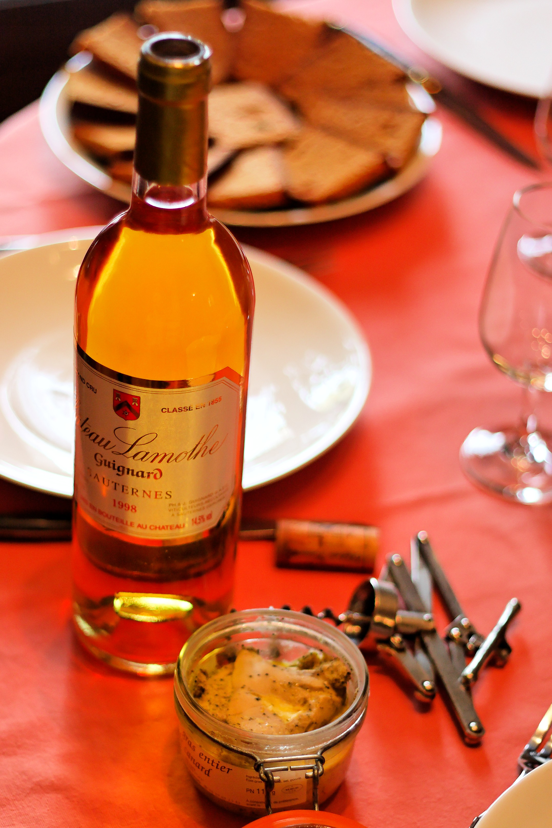 A terrine of foie gras with a bottle of Sauternes.